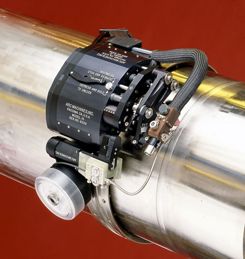 An AMI orbital pipe welding head.